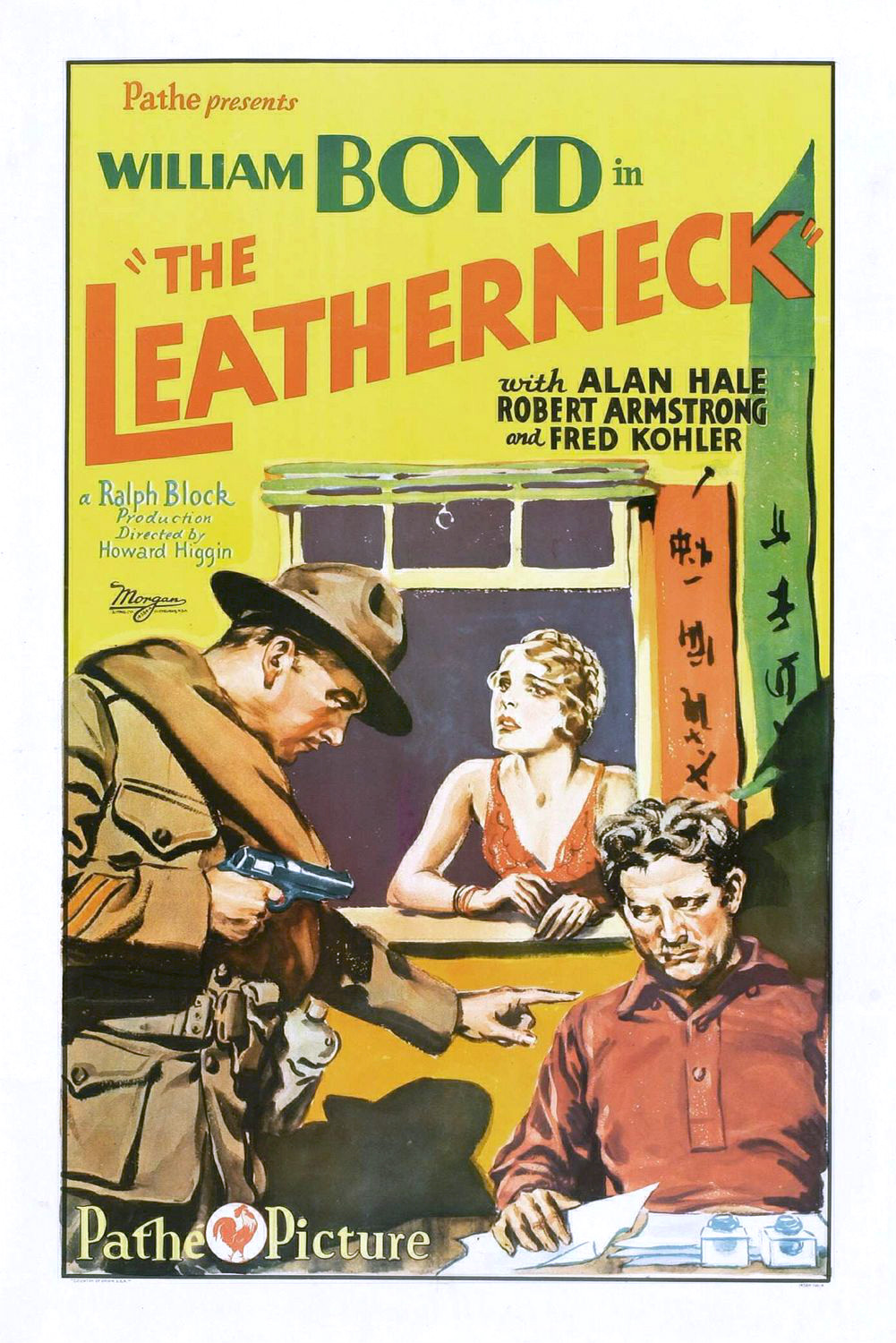 Poster for the 1929 film The Leatherneck. The item has no copyright markings on it as can be seen in the links above. At lower left is Country of origin USA. At lower right are numbers which apparently pertain to the print job for the poster.